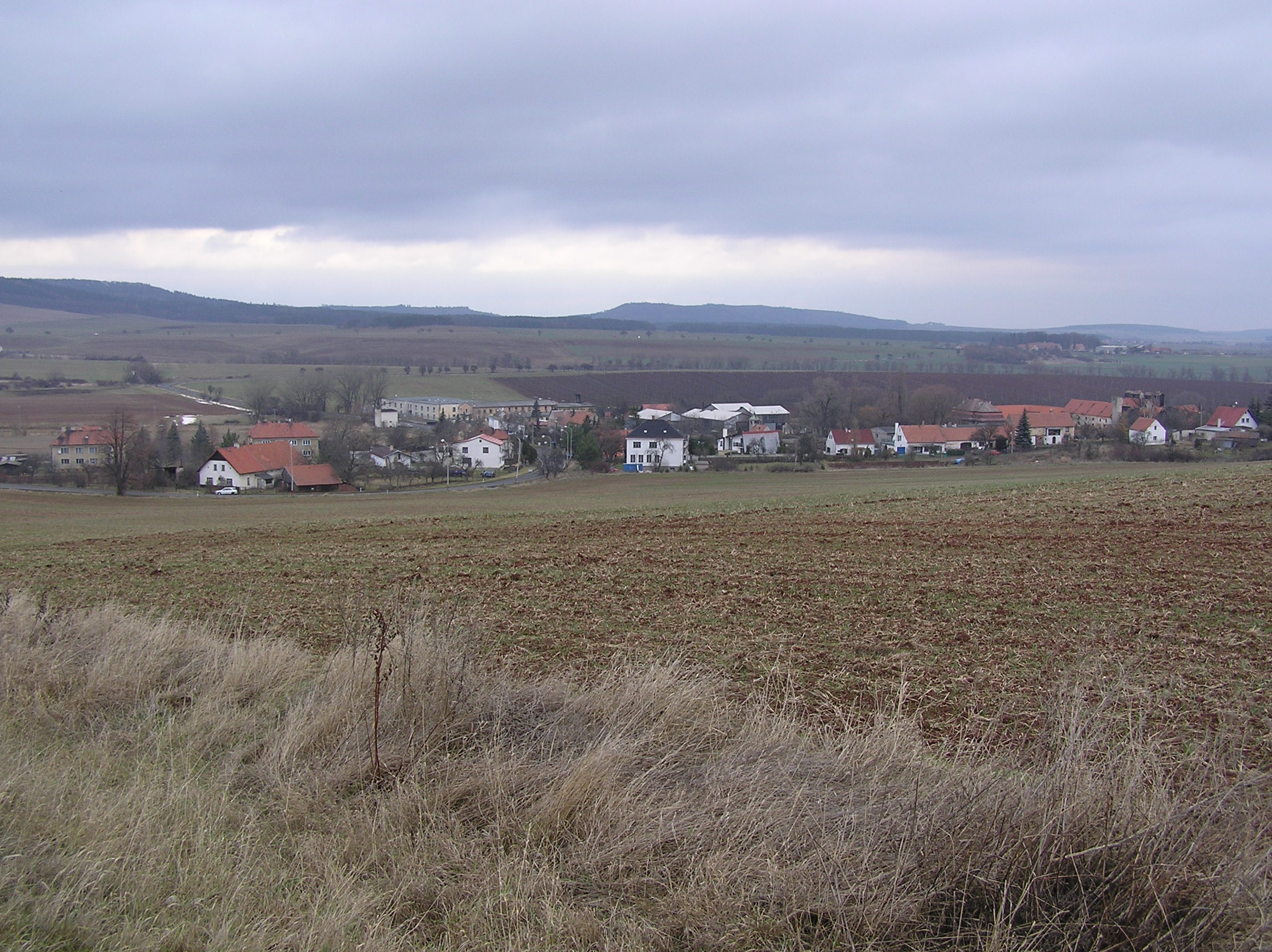 Drahonice - total view